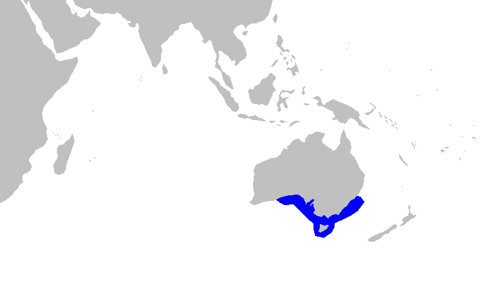 Distribution map for Cephaloscyllium laticeps